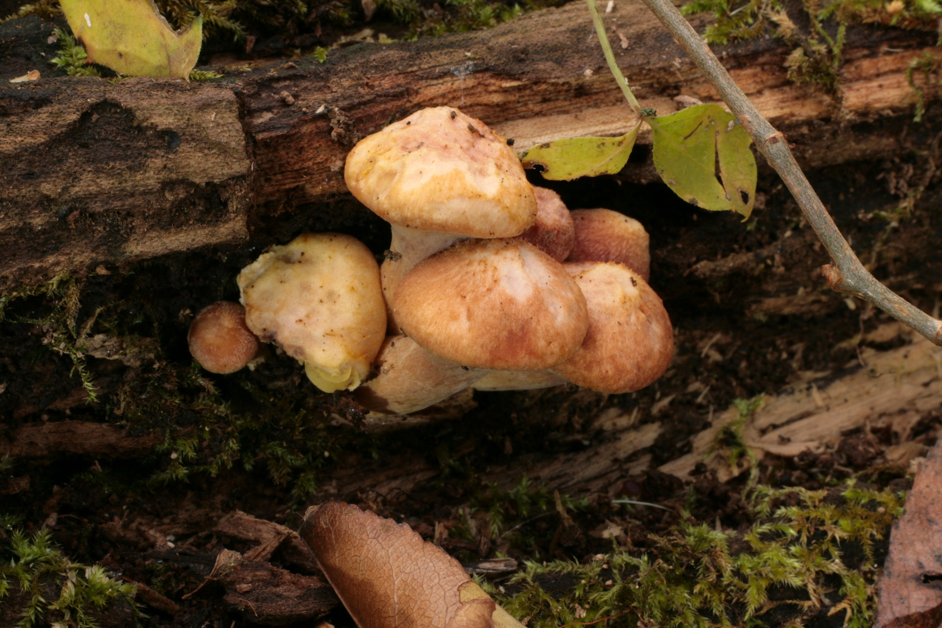 Fruit bodies of the agaric fungus Gymnopilus braendlei. Specimens photographed in Camp Pine Woods, Glenview, Illinois, USA.